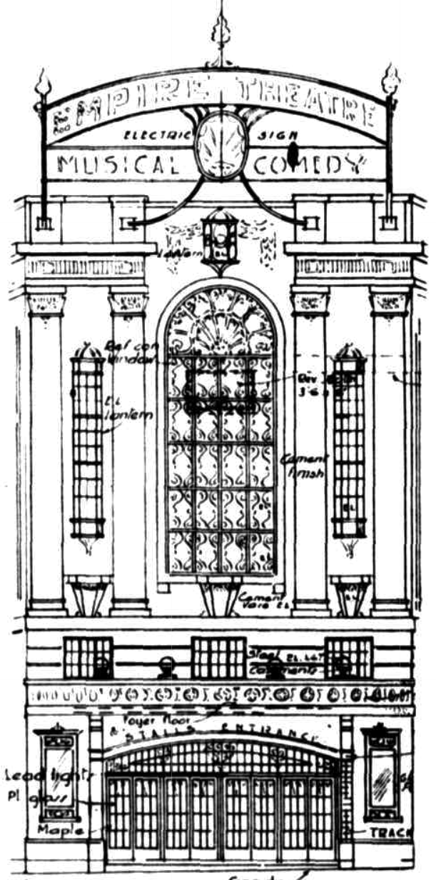 Architect's sketch of proposed facade, Empire Theatre, Sydney